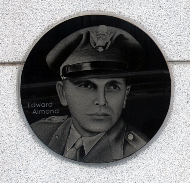 Edward M. Almond Imprint, Heungnam Retreat Memorial Tower at Geoje City, South Gyeongsang province, South Korea